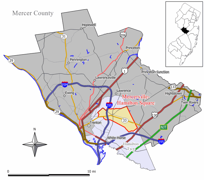 Description: Map of Mercerville-Hamilton Square CDP in Mercer County, New Jersey. Source: Jim Irwin Original work by Jim Irwin, December 2005.